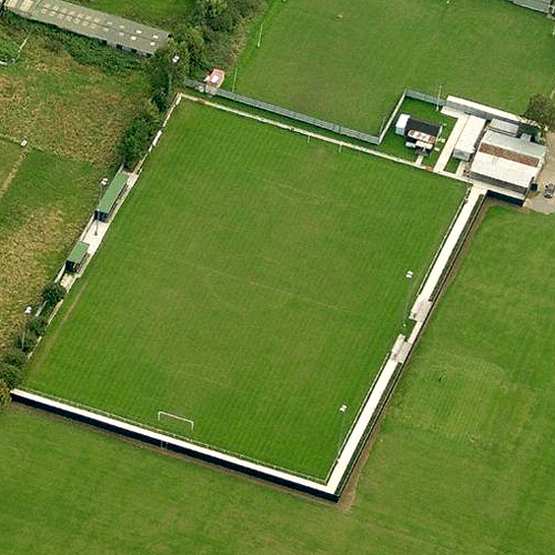 Aerial photograph of the Silverlake Arena, home of Sholing Football Club